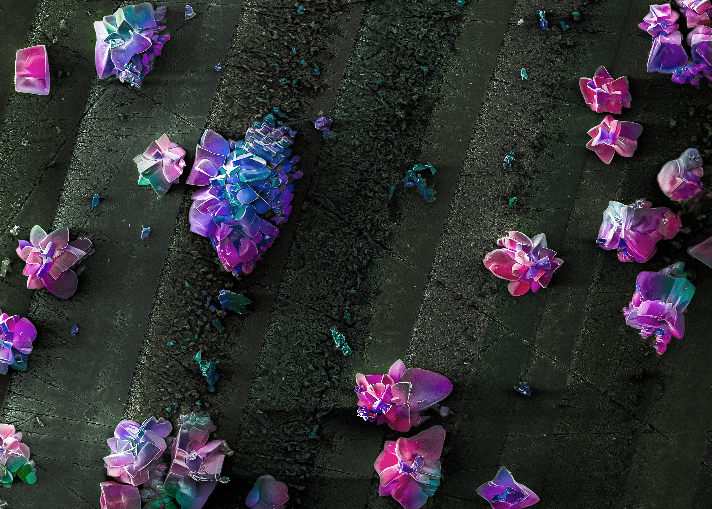 Image of indium phosphide nanocrystalline surface obtained by electrochemical etching. On the surface, crystals of indium oxide formed, which have a flowery structure. Photos of nanostructures were obtained with the scanning electron microscope JSM-6490 by the researchers of Berdyansk State Pedagogical University. 100x magnification. These structures can be used in the manufacture of laser technology. Nanostructured semiconductors exhibit a number of unusual properties, and are often called metamaterials or supermaterials. Sunda: Poto beungeut nanokristalin indium fosfida ku cara ukir éléktrokimia. Kristal indium oksida kabentuk dina wangun mirip kembang. Poto nanostruktur dihasilkeun maké mikroskop éléktron pindai JSM-6490 ku panalungtik Berdyansk State Pedagogical University, magnifikasi 100x.Ieu struktur bisa dipaké di pabrik téhnologi laser. Semikonduktor nanostruktur némbongkeun sababaraha pasipatan ahéng, sarta mindeng disebut métamaterial atawa supermaterial.